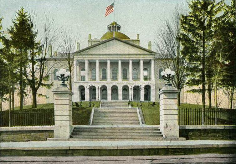 Maine State House, Augusta, ME; from a 1905 postcard. Built in 1829-1832, this shows the capitol as it was designed by Charles Bulfinch.